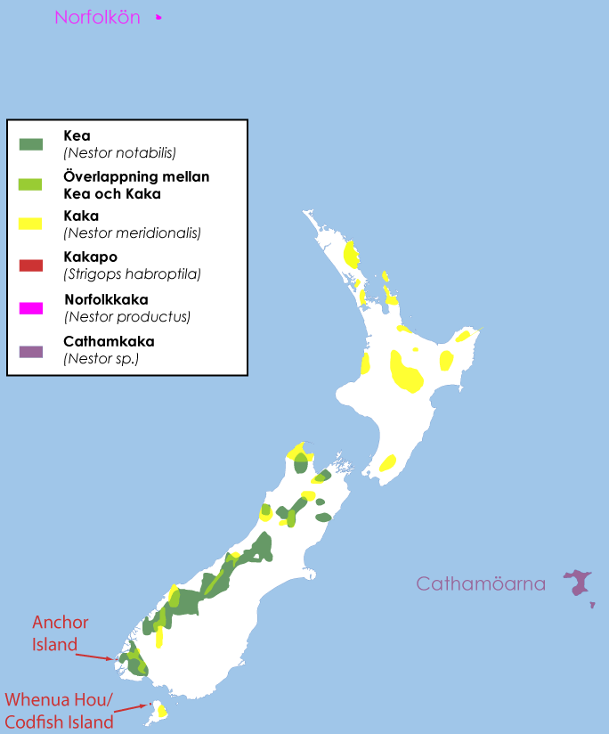 Current distribution of various species of the family Nestoridae. Swedish language version. Nestor notabilis Nestor meridionalis Strigops habroptila Nestor productus